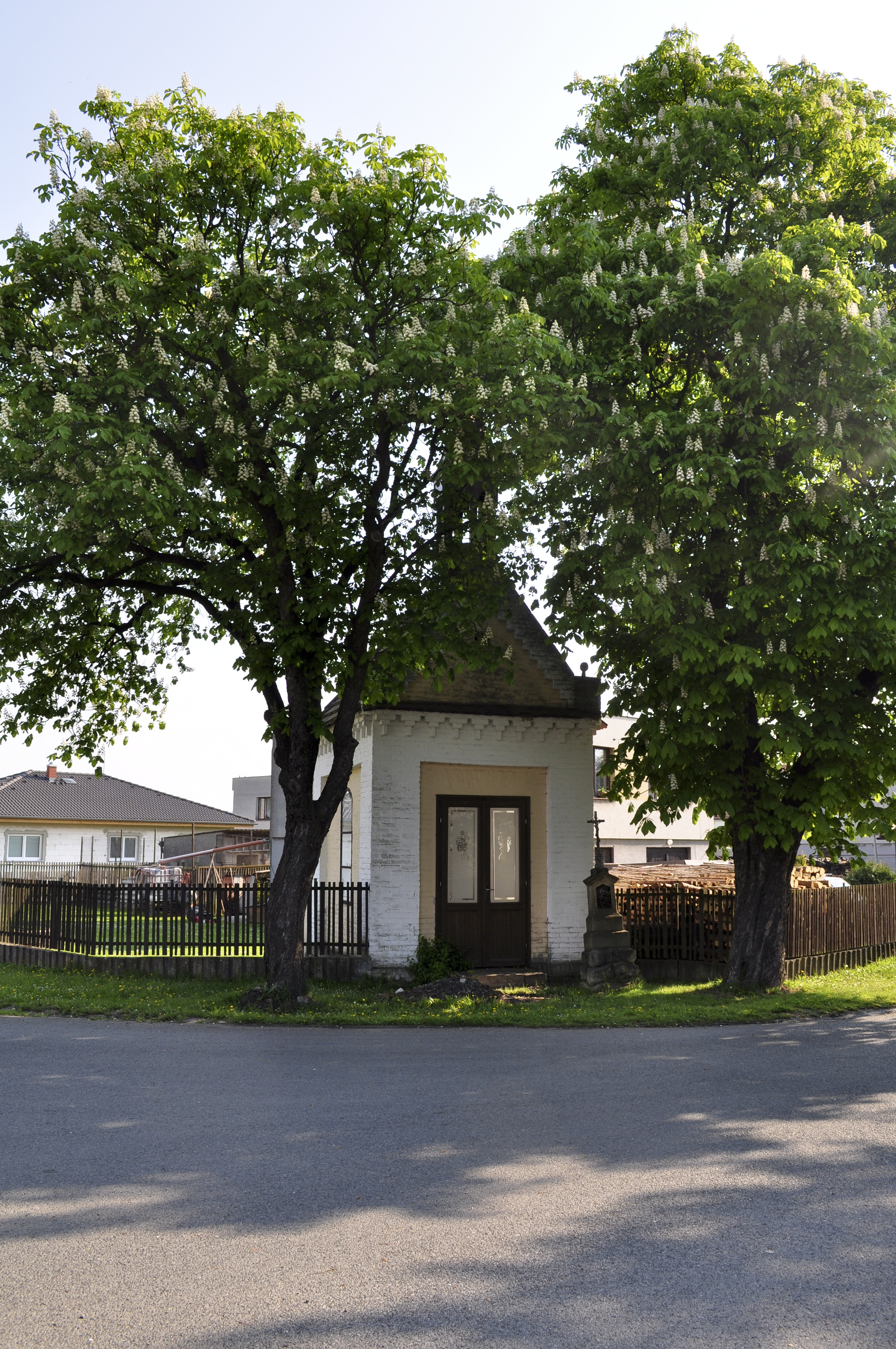 Veselá - chapel